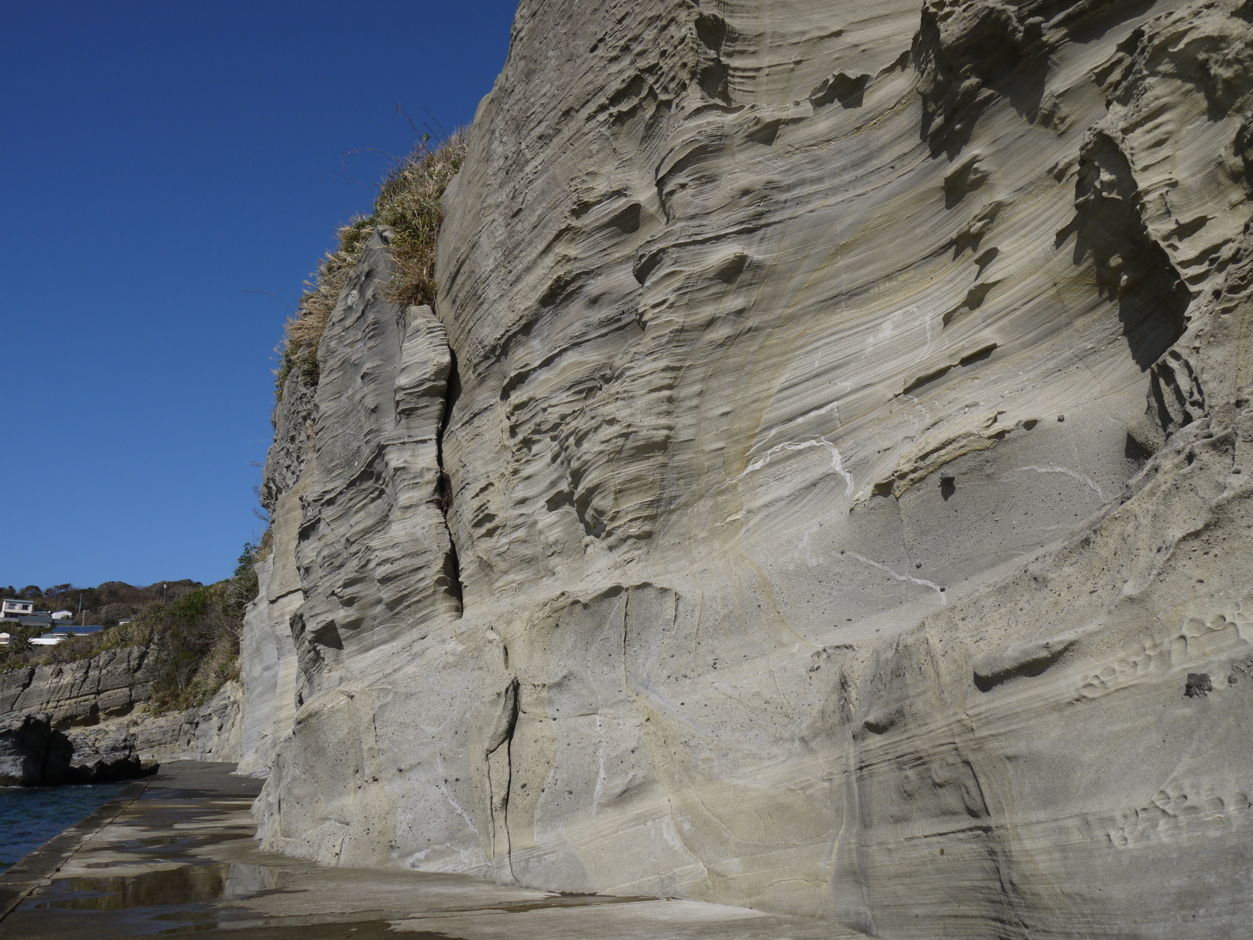 Rocks of Ebisujima (Ebisu Island) in Simoda, Shizuoka Prefecture, Japan.